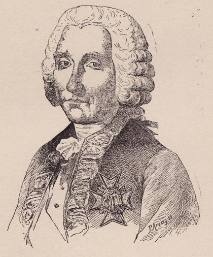 Sketched portrait of Pierre-Joseph Bourcet.